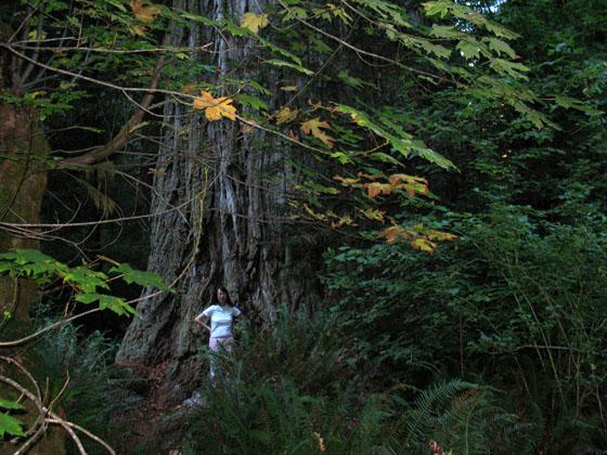 Lost Monarch in the Grove of Titans, Jedediah Smith Redwoods State Park. One of the largest Coast Redwood trees by wood volume.